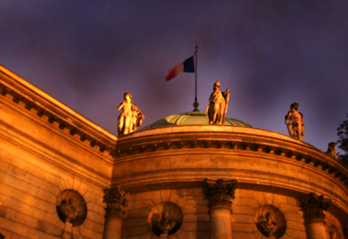 Foreign Legion museum building at night, Paris. 2008.